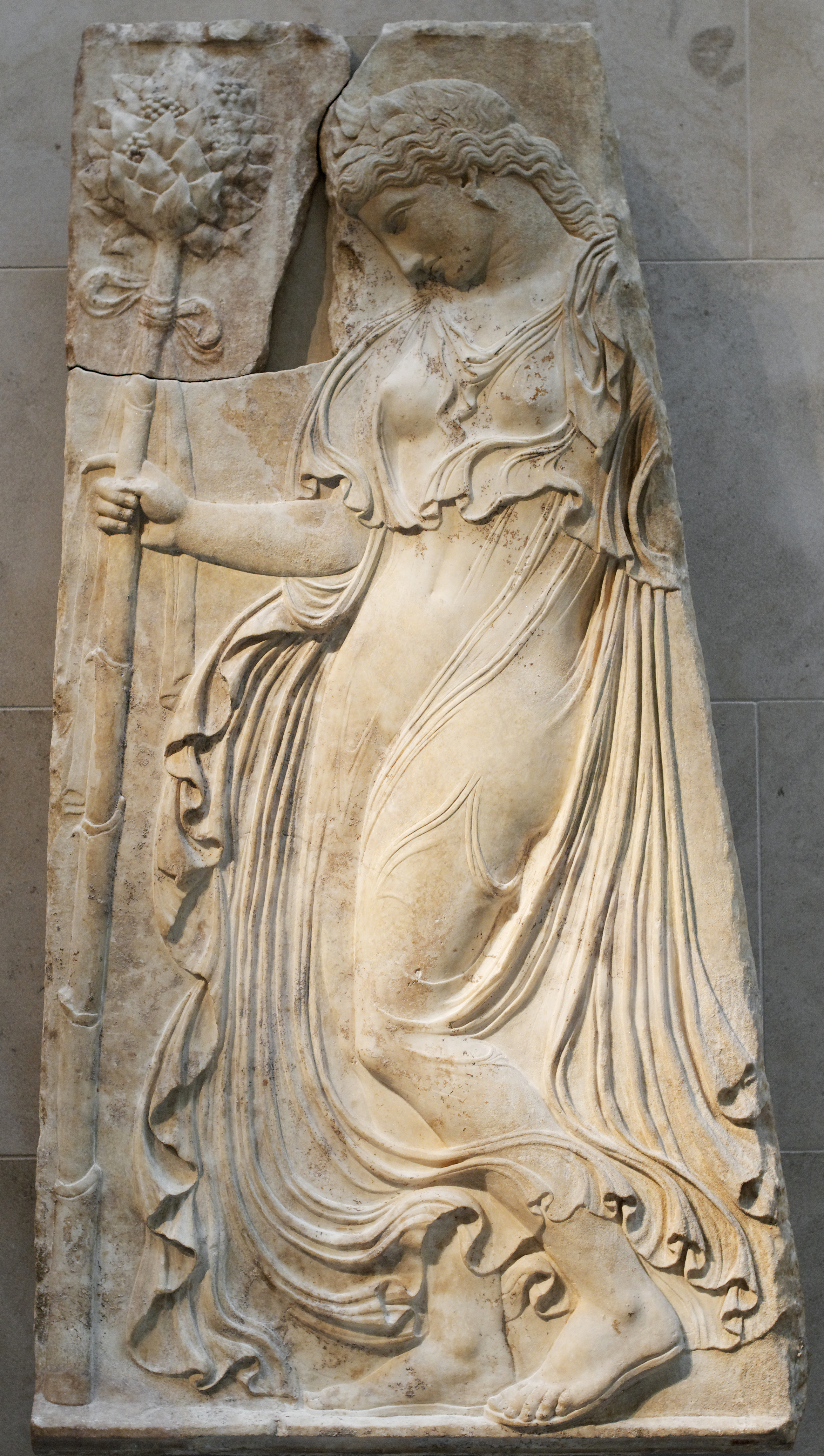 Dancing maenad. Roman copy of the Augustan period after a Greek original of ca. 425–400 BC. attributed to Kallimachos.